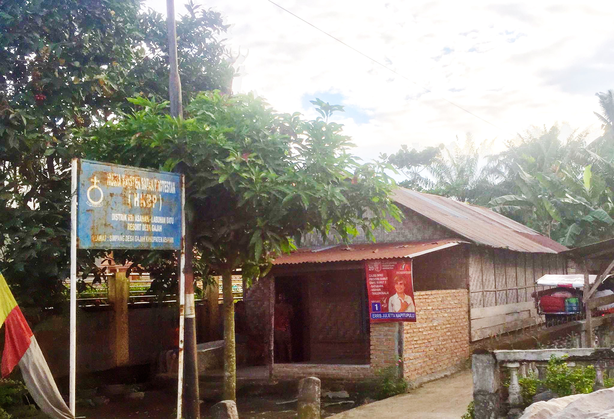 HKBP Simpang Desa Gajah, Res. Desa Gajah Church in Perjuangan, Sei Balai, Batu Bara